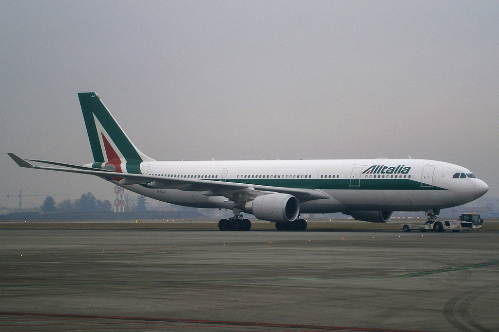 in Torino-Caselle, flight from Miami (MIA), diverted due to heavy freezing fog in Milan MXP.